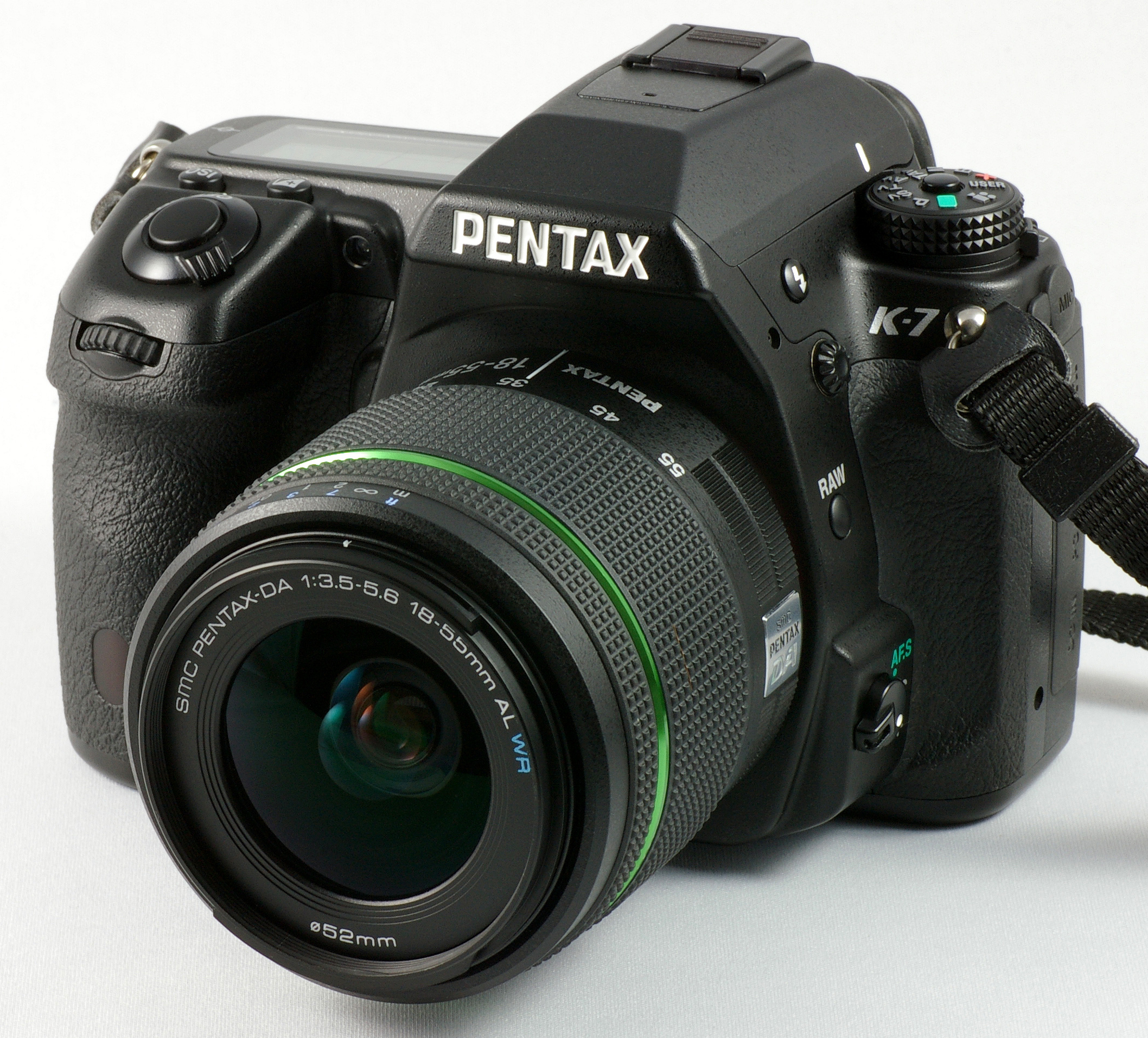 The digital SLR camera Pentax K-7, body and kit zoom lens smc DA 18-55 mm / 3.5~5.6 AL WR (weather/dust resistant).